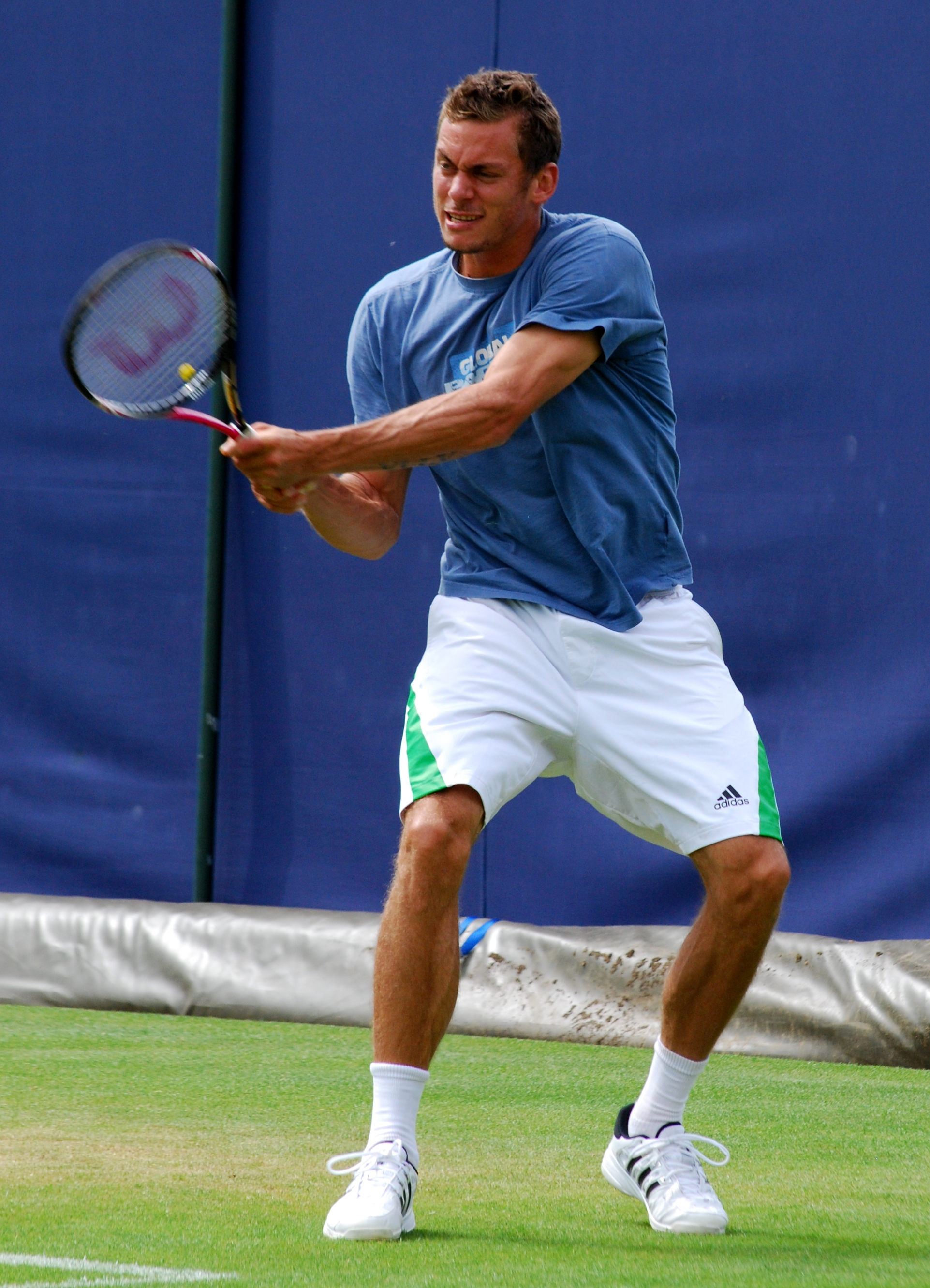 On the practice court. Day 1 of the Aegon Championships, Queen's Club 2011.